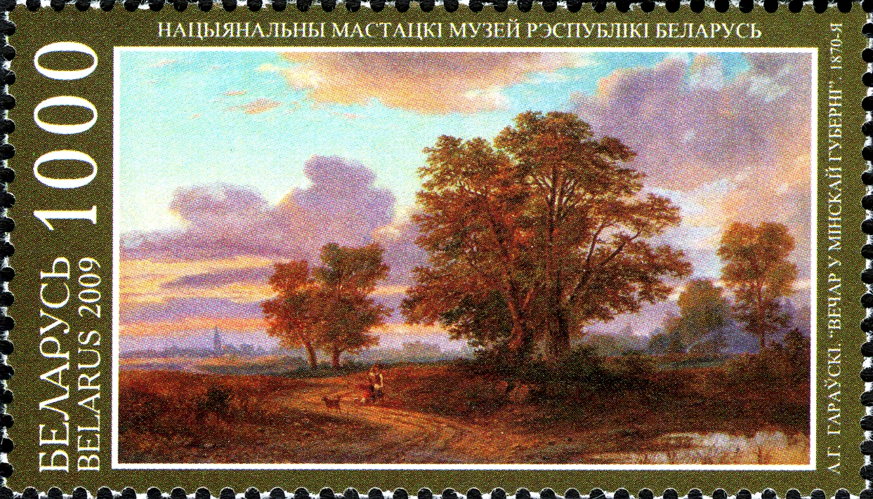 Stamp of Belarus